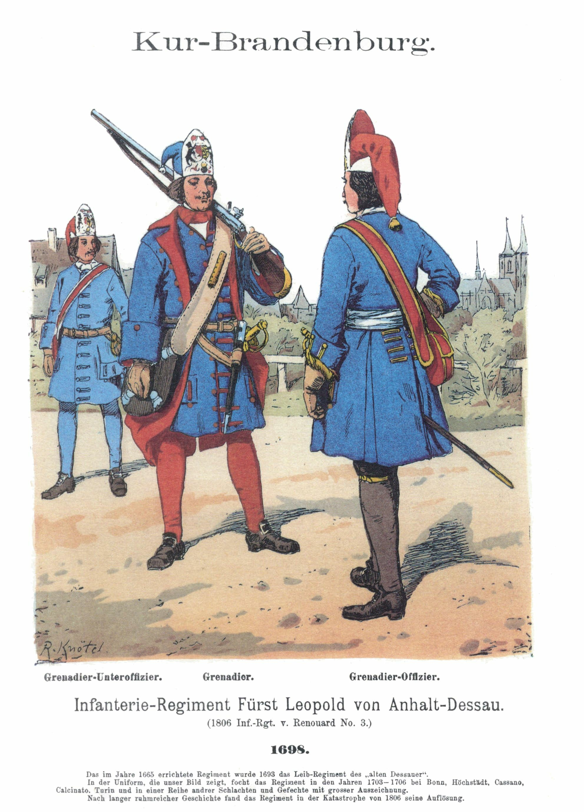 Soldiers of a Brandenburg-Prussia infantry regiment in 1698